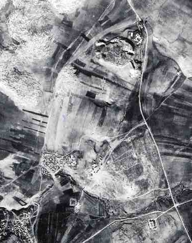 This file was derived from: Aerial photo with Lajjun and Tell Megiddo, 1944.jpg